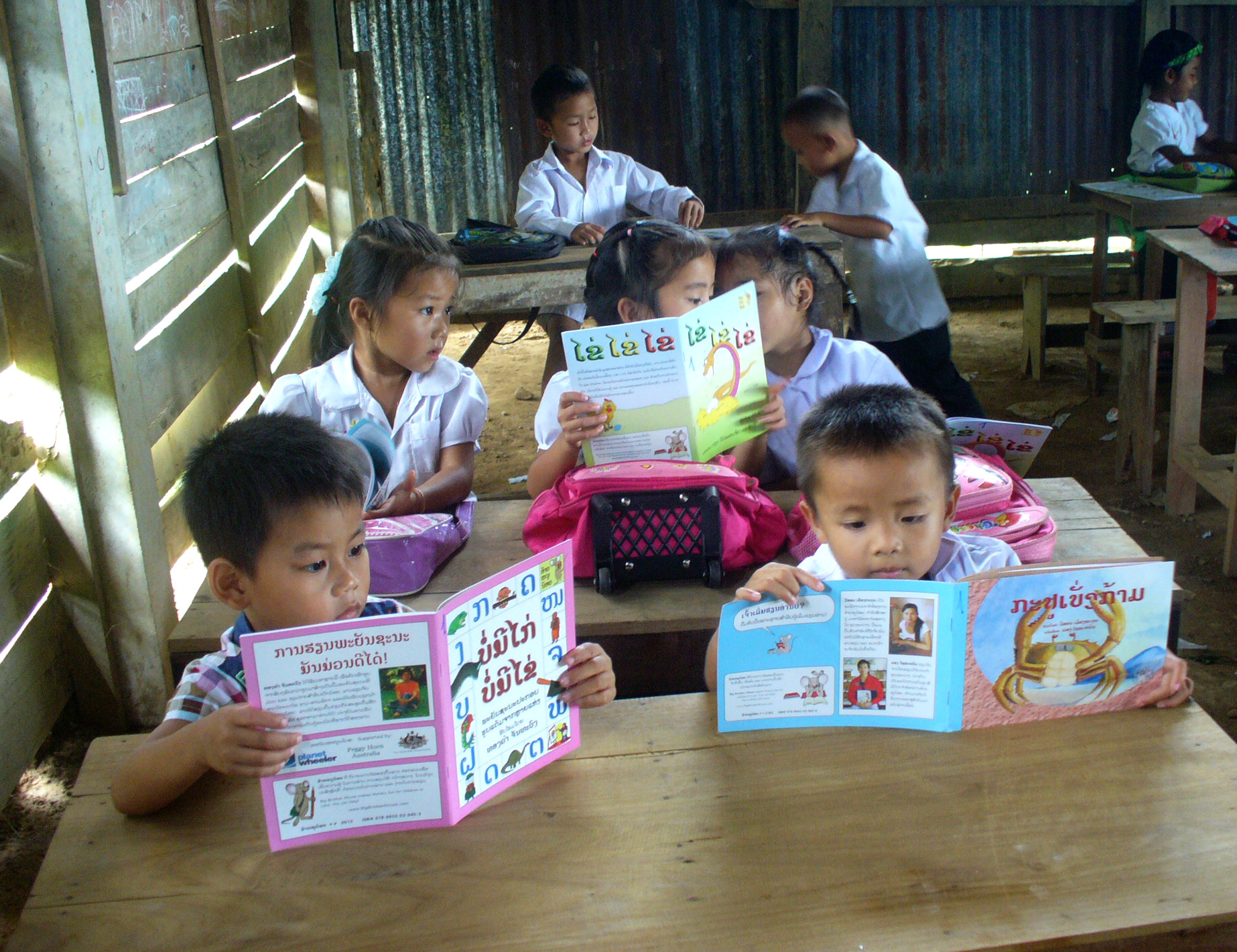 Children in a Lao primary school on their first day of a Sustained Silent Reading (SSR) program. This village, in Kasi district of Laos, was the site of the first SSR program in Laos. It was set up by Big Brother Mouse, which publishes and distributes books to promote reading and literacy, with an emphasis on easy and fun books that children are eager to read.